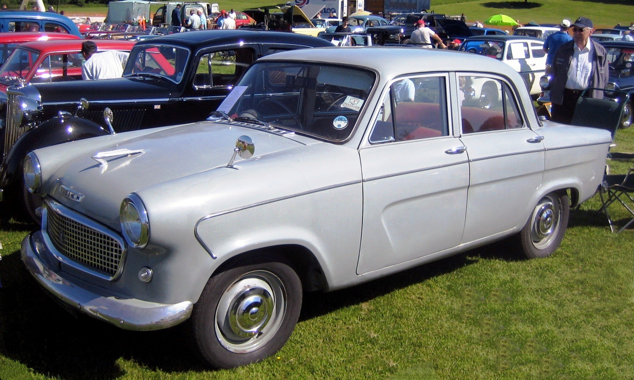 Standard Ensign which was a downmarket Standard Vanguard Series III. Same body, though SOME Ensigns came with smaller engines